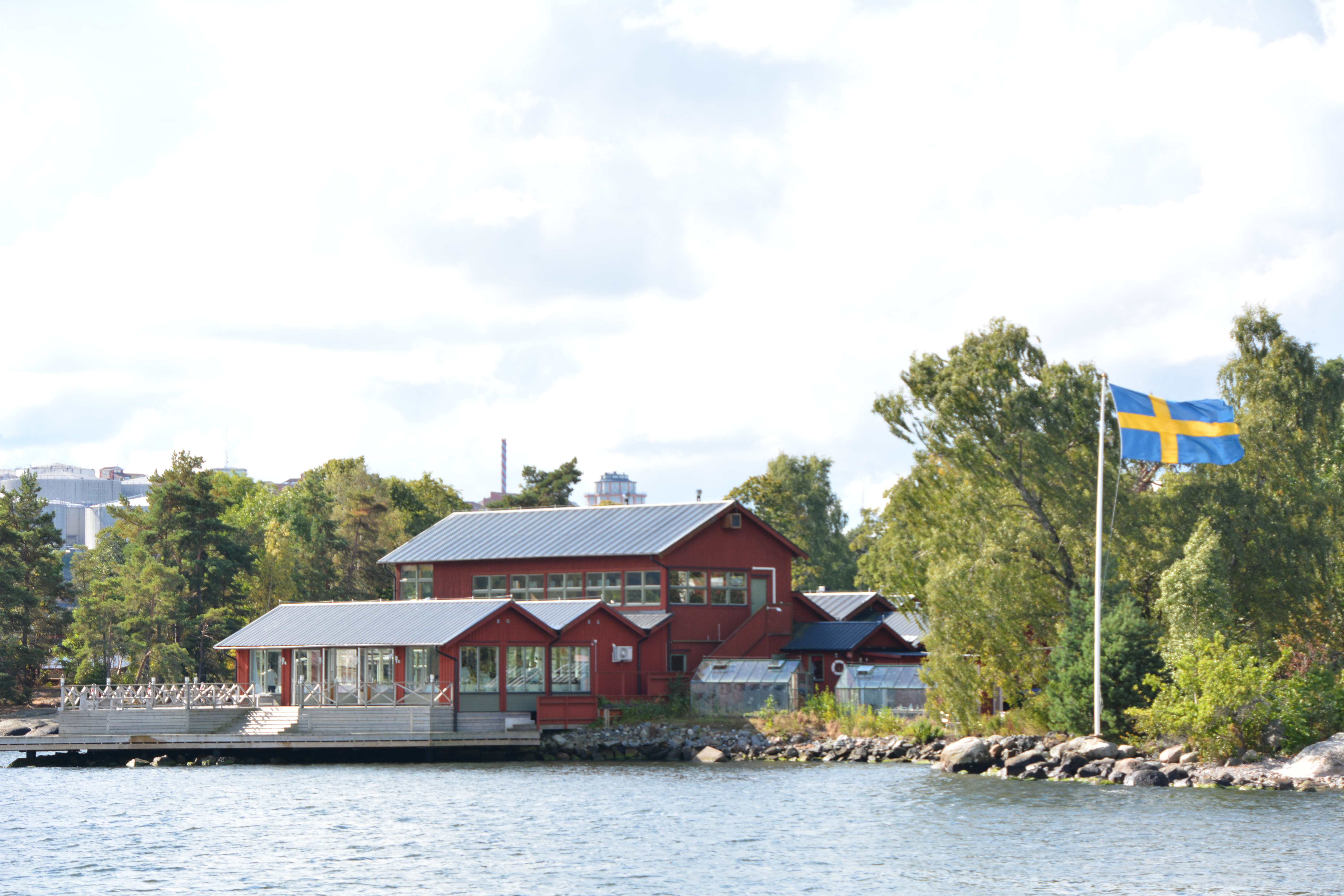 Fjäderholmarnas krog